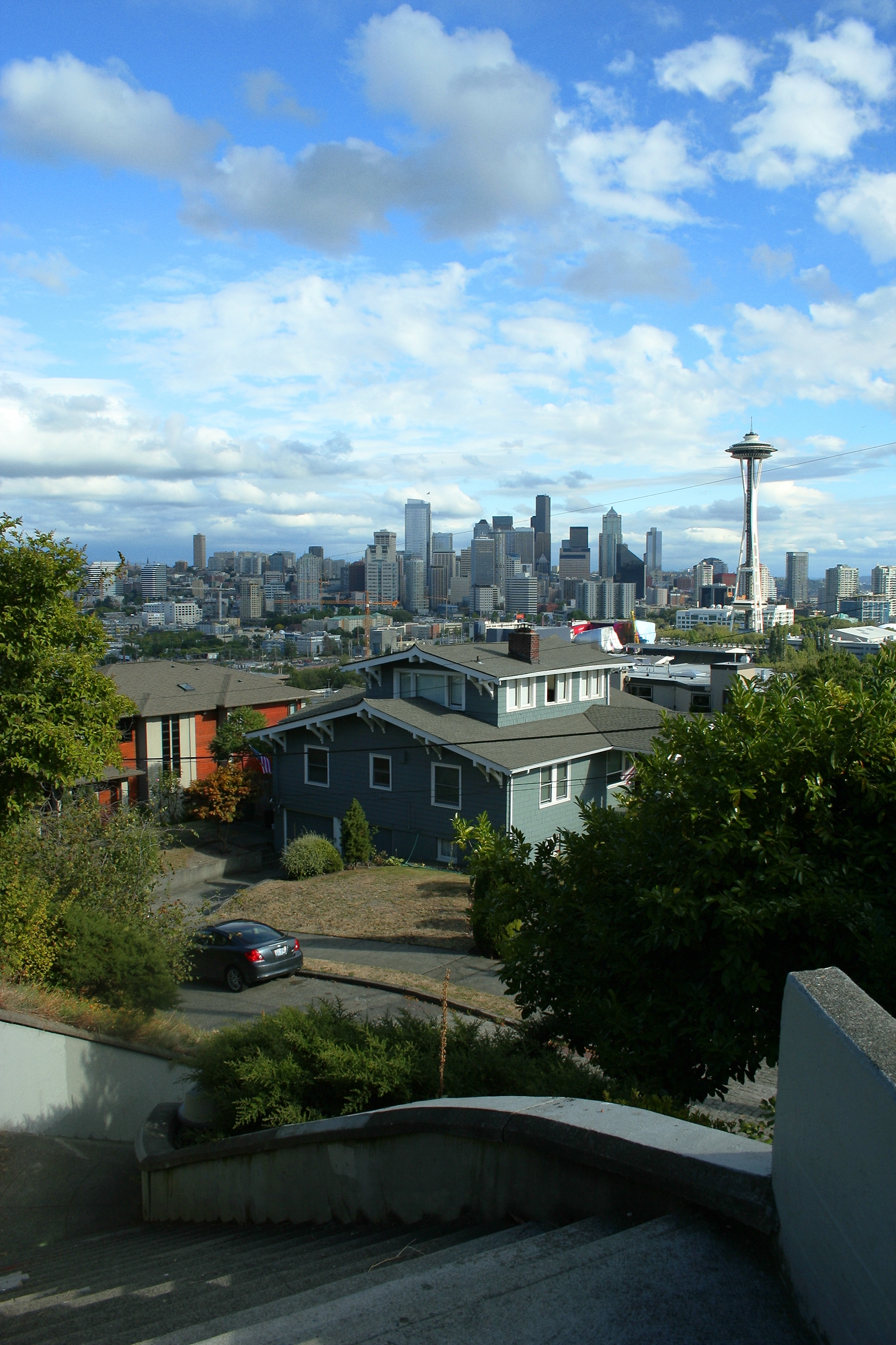 Downtown Seattle from Queen Anne